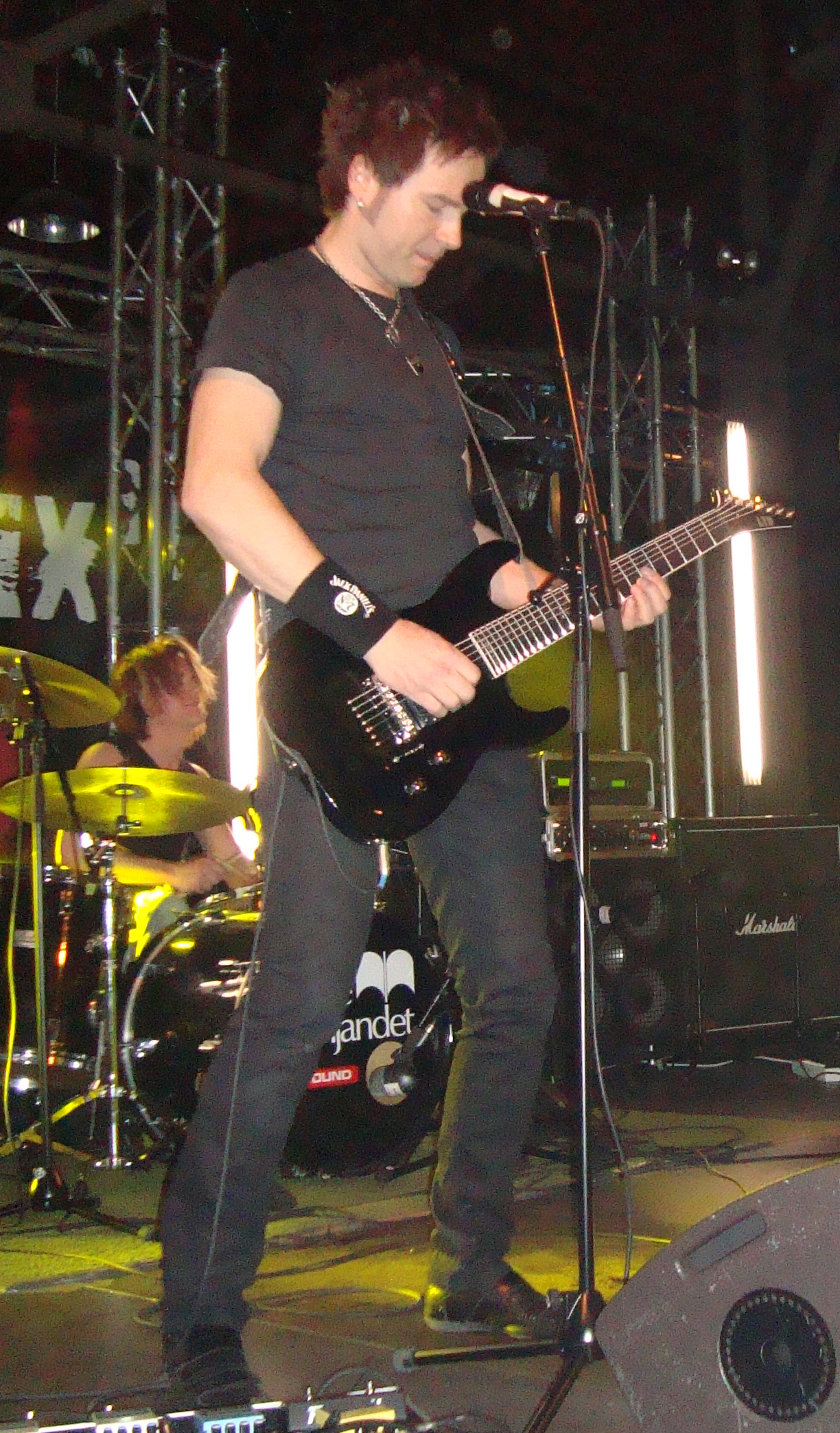 Per Lidén, Renegade Five, at Project Six3, Magasinet, Falun, Sweden.